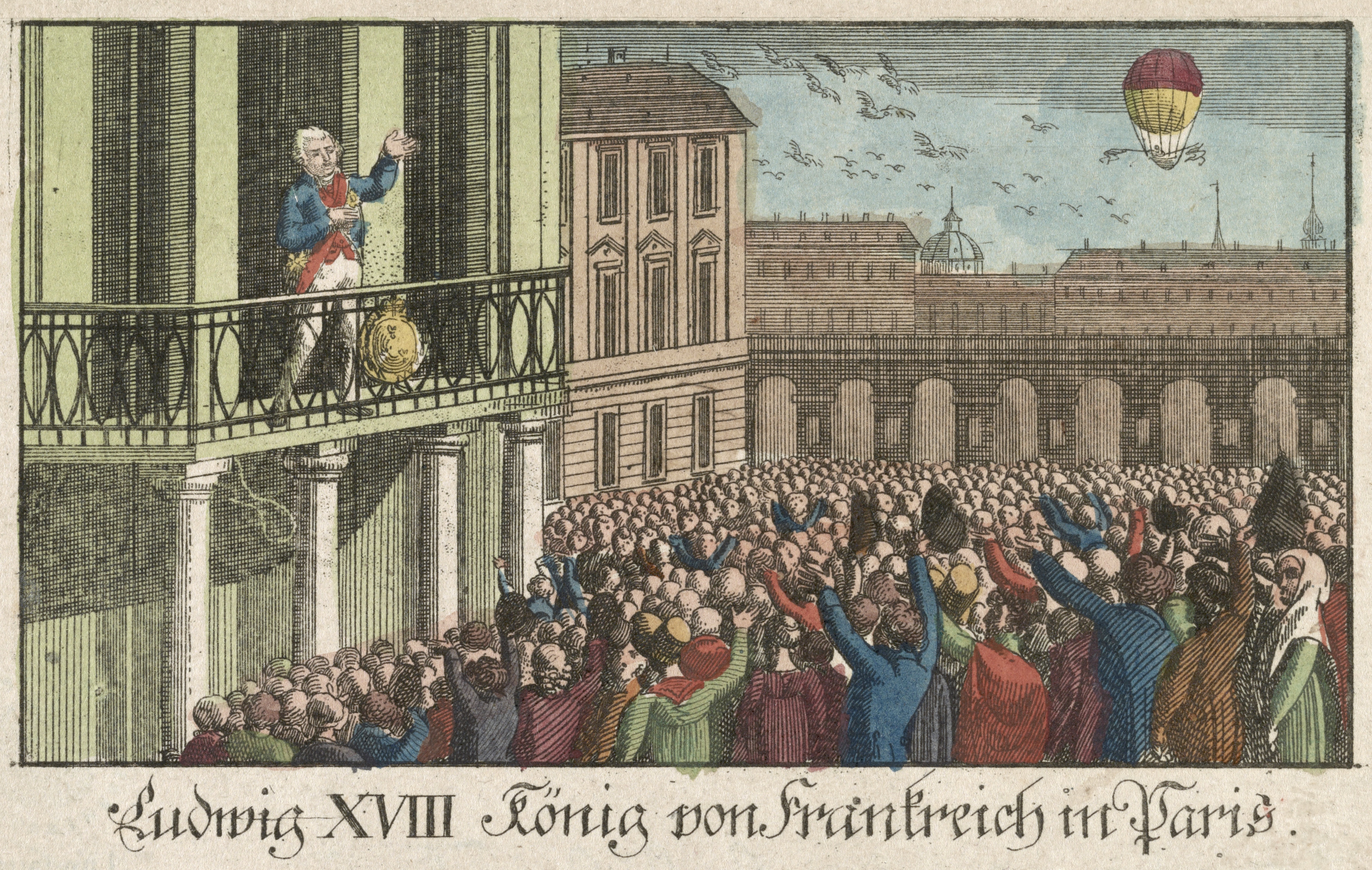 Print shows King Louis XVIII standing on a balcony and a crowd below watching a hot air balloon in the distance.